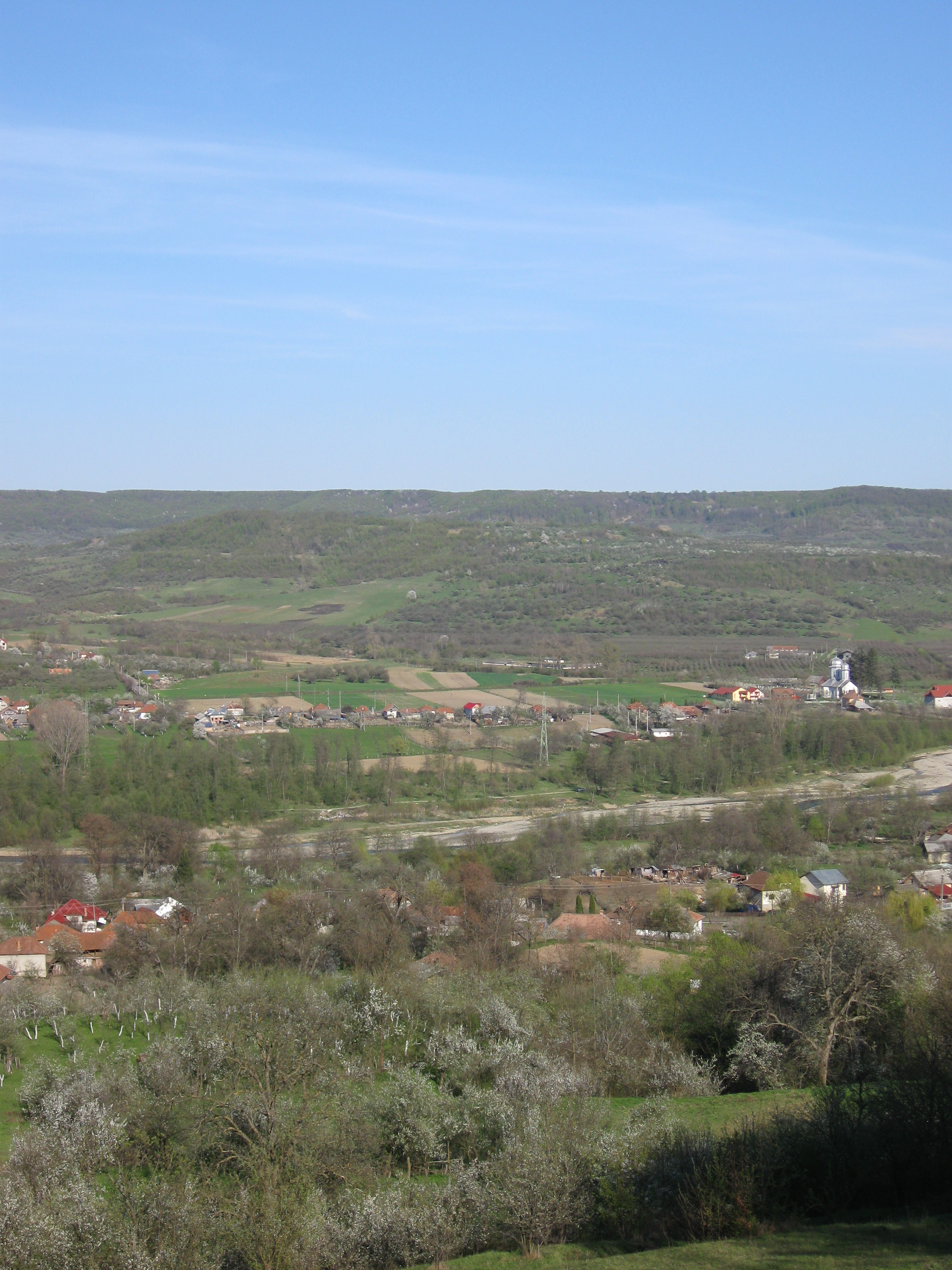 Mihăeşti, Argeş County, seen from the hills to the west. Târgului River runs north to south.